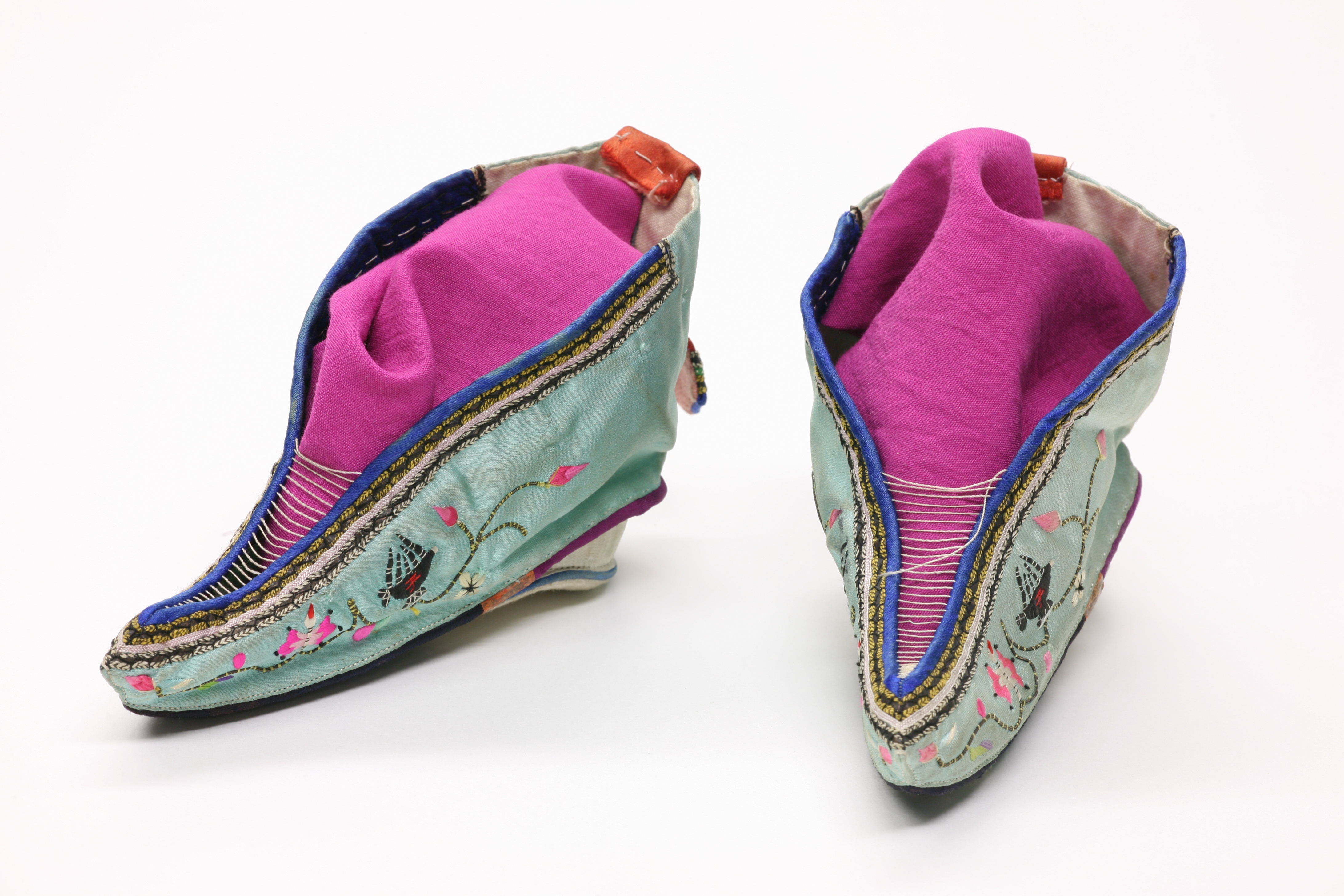 Chinese shoes for bound feet, The Children's Museum of Indianapolis.